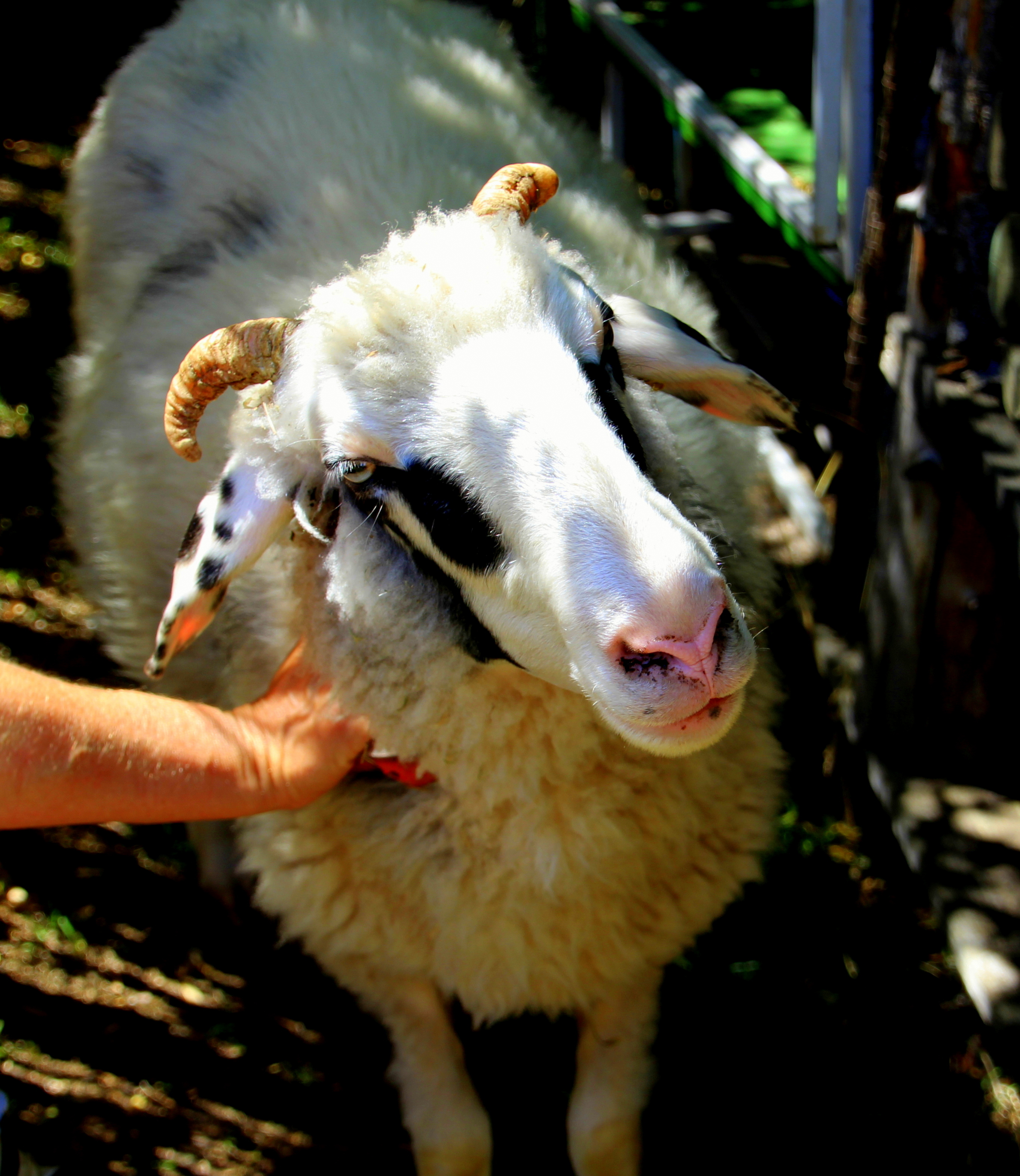 Alpine Stone Sheep - The Alpine Stone Sheep - here is a "woman" is the historical starting race of mountain sheep in the Eastern Alps. Today, this breed is one of the most threatened with extinction, German sheep breeds. Stone sheep are well adapted to terrain and climate of the high mountains. Color and pattern of the Alpine Stone Sheep are quite diverse. The body is slender, as a mountain specialist, it has very hard claws. Most bucks and sometimes females are horned .. Goats weighing 60 to 75 kg and ewes 45 to 60 kg. They bring mostly twice a year lambs to the world and have a high milk yield. The wool of the sheep stone consists of long guard hairs and wavy, fine and short hair wool. Alpines Steinschaf - Das Alpine Steinschaf - hier ist eine "Frau" ist der historische Ausgangs Rennen der Bergschafe in den Ostalpen. Heute ist diese Rasse eine der am meisten vom Aussterben bedrohten deutschen Schafrassen. Stone Schafe sind dem Terrain und Klima des Hochgebirges angepasst. Farbe und Muster des Alpine Steinschaf sind recht vielfältig. Der Körper ist schlank, als Bergspezialist, hat es sehr schwer, Klauen. Am meisten Geld und manchmal Weibchen gehörnt sind .. Ziegen mit einem Gewicht von 60 bis 75 kg und Mutterschafe 45 bis 60 kg. Sie bringen meist zweimal pro Jahr Lämmer zur Welt und haben eine hohe Milchleistung. Die Wolle der Schafe Stein besteht aus langen Deckhaare und wellenförmige, feine und kurze Haare Wolle.